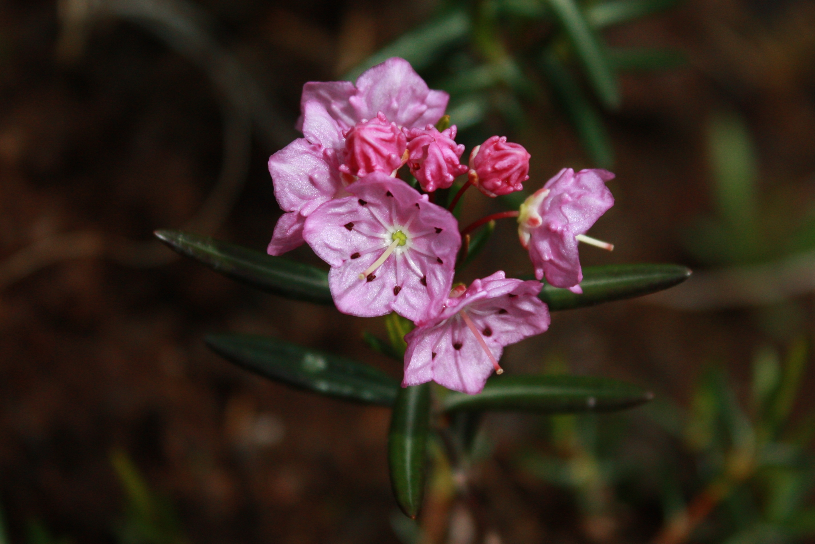 Open and closed Kalmia polifolia flowers. Photograph taken on the borders of a fen peatland exploited a few decades ago, in Saint-Fabien, Bas-Saint-Laurent region, Québec.